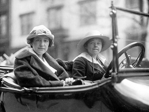 Sophie Treadwell U.S. Auto Tour, ca. 1917 MS318 Box 21 File 6 8"x10" Special Collections, University of Arizona Library